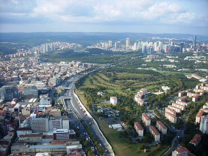 Maslak business center from İstanbul Sapphire